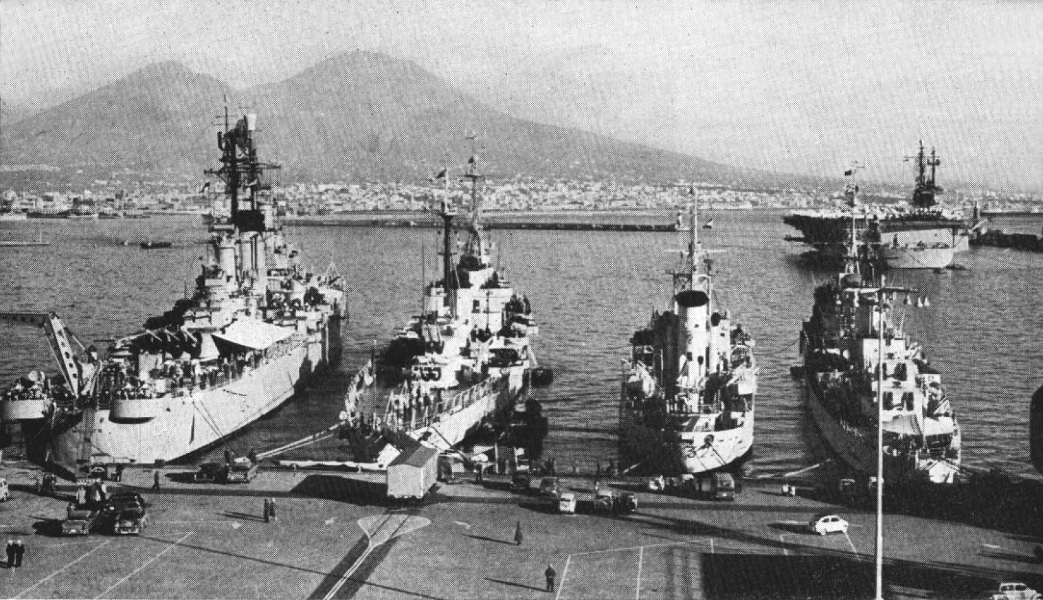 The U.S. Navy heavy cruiser USS Des Moines (CA-134), left, with Italian warships and a Forrestal-class aircraft carrier at Naples, Italy, probably in the late 1950s. Next to Des Moines lies the Italian light cruiser Luigi di Savoia Duca Degli Abruzzi (C550), to the right is a Capitani Romani-class destroyer leader, either San Giorgio (D562) or San Marco (D563). Mount Vesuvius is visible in the background.